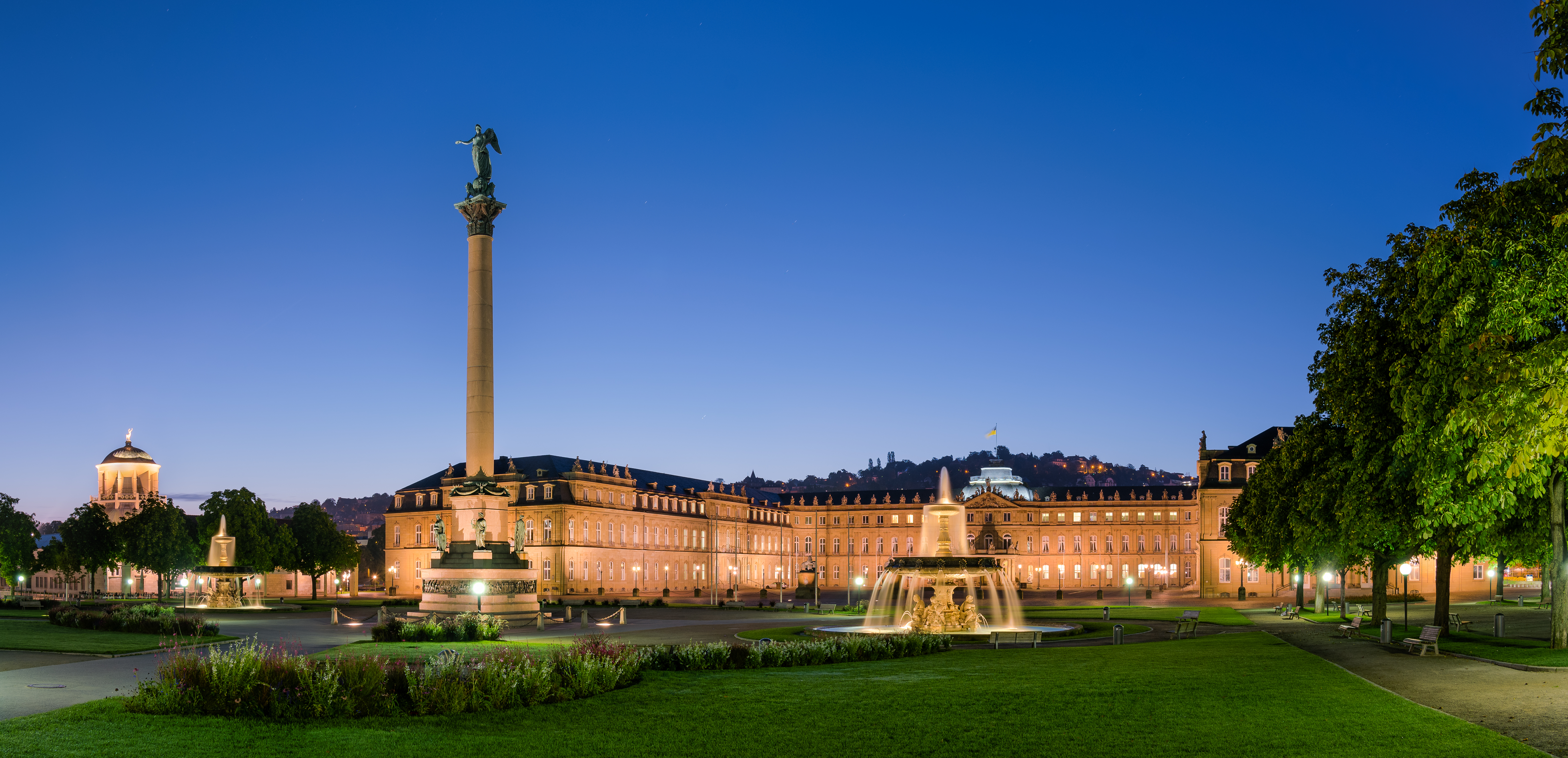 Neues Schloss (new palace), Schlossplatzspringbrunnen, Jubiläumssäule (Schlossplatz, Stuttgart, Germany).